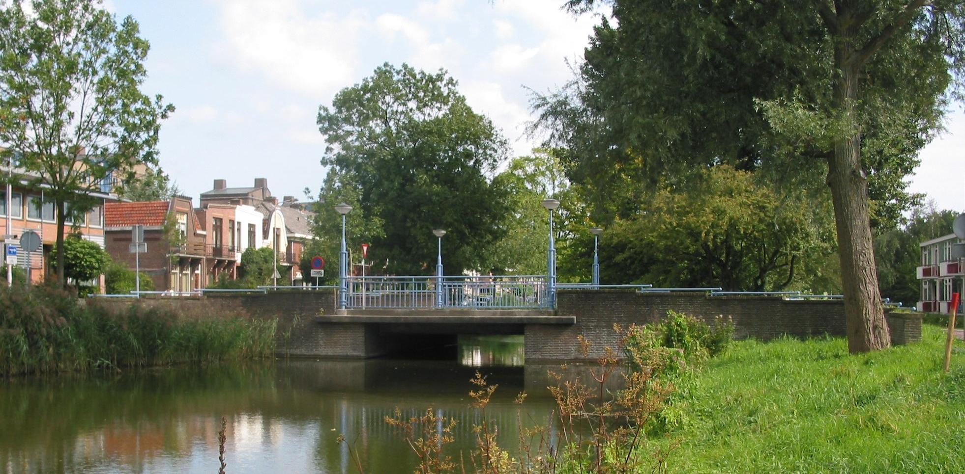 Bridge, Keizer Karel Park, Amstelveen. 1926.